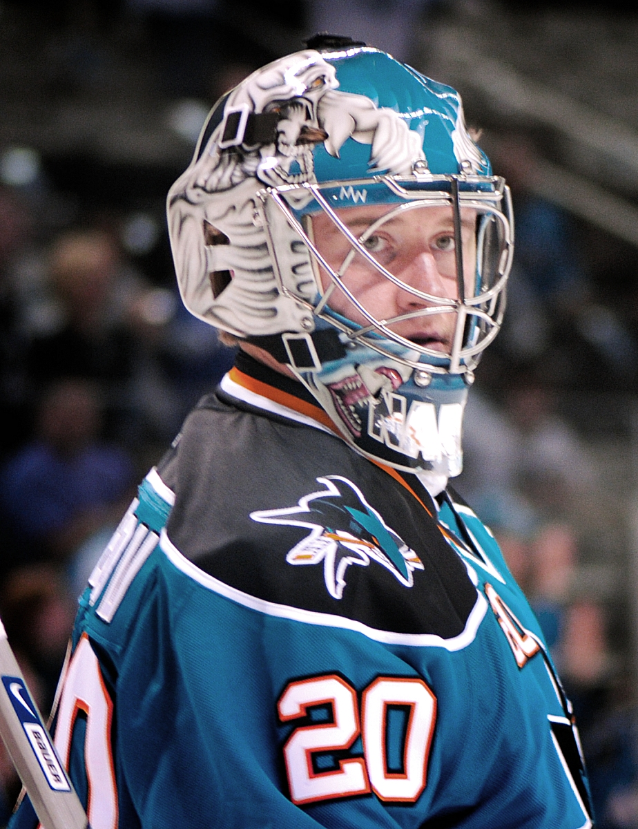 Evgeny Nabokov 2008